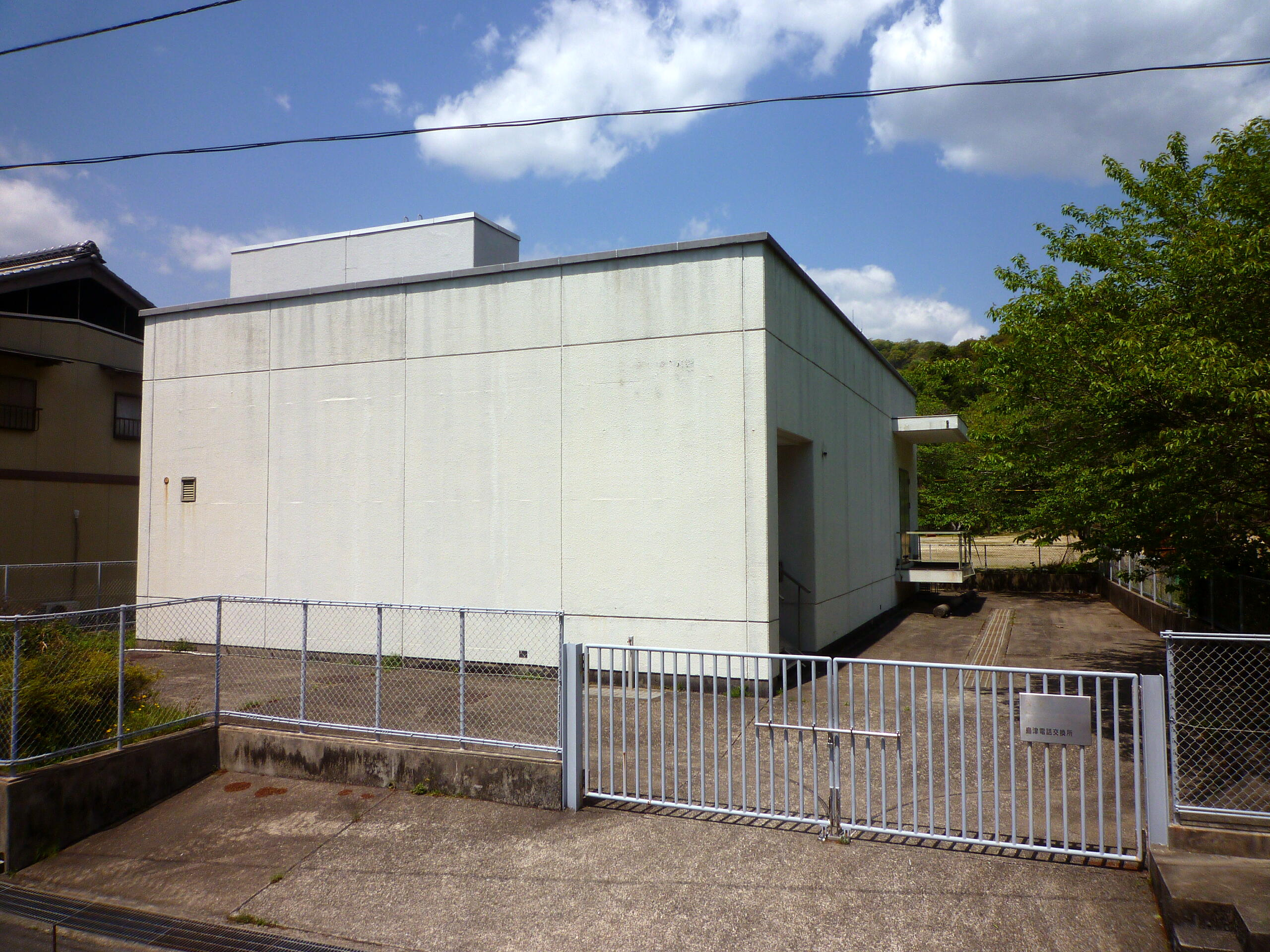 The "NTT Shimazu Telephone Exchange Building" in Kowaura, Minamiise Town, Watarai District, Mie Prefecture, Japan.